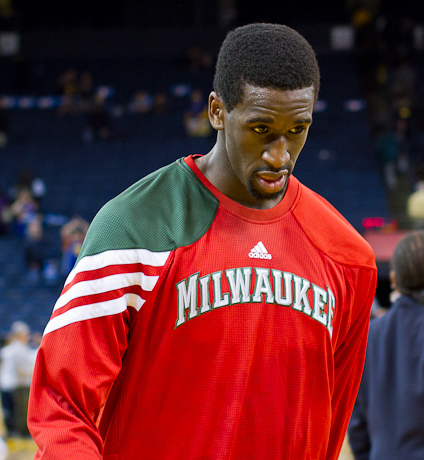 Ekpe Udoh with the Milwaukee Bucks